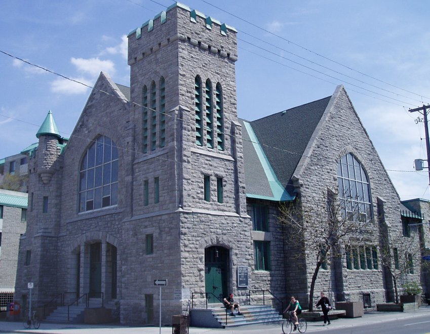 McLeod-Stewarton United church in Downtown Ottawa on Bank St.